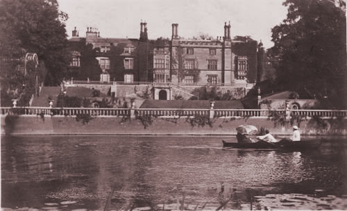 Photograph of Drakelowe Hall, Gresley, Derbyshire, longtime home of the Gresley family.